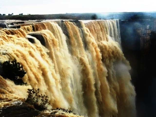 bahuti waterfall height142m.